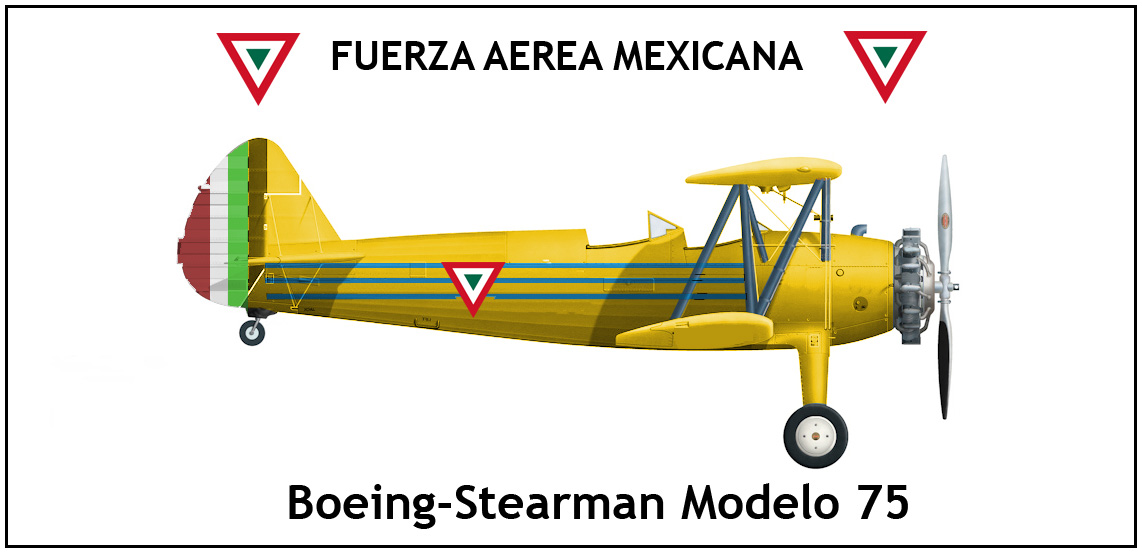 Boeing-Stearman Modelo 75 FAM